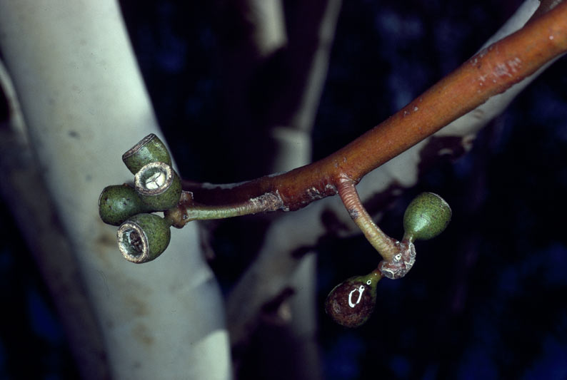 Fruit of Eucalyptus laeliae, taken at Helena River Gorge, East Perth, Western Australia